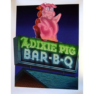 Dixie Pig by Clay Huffman